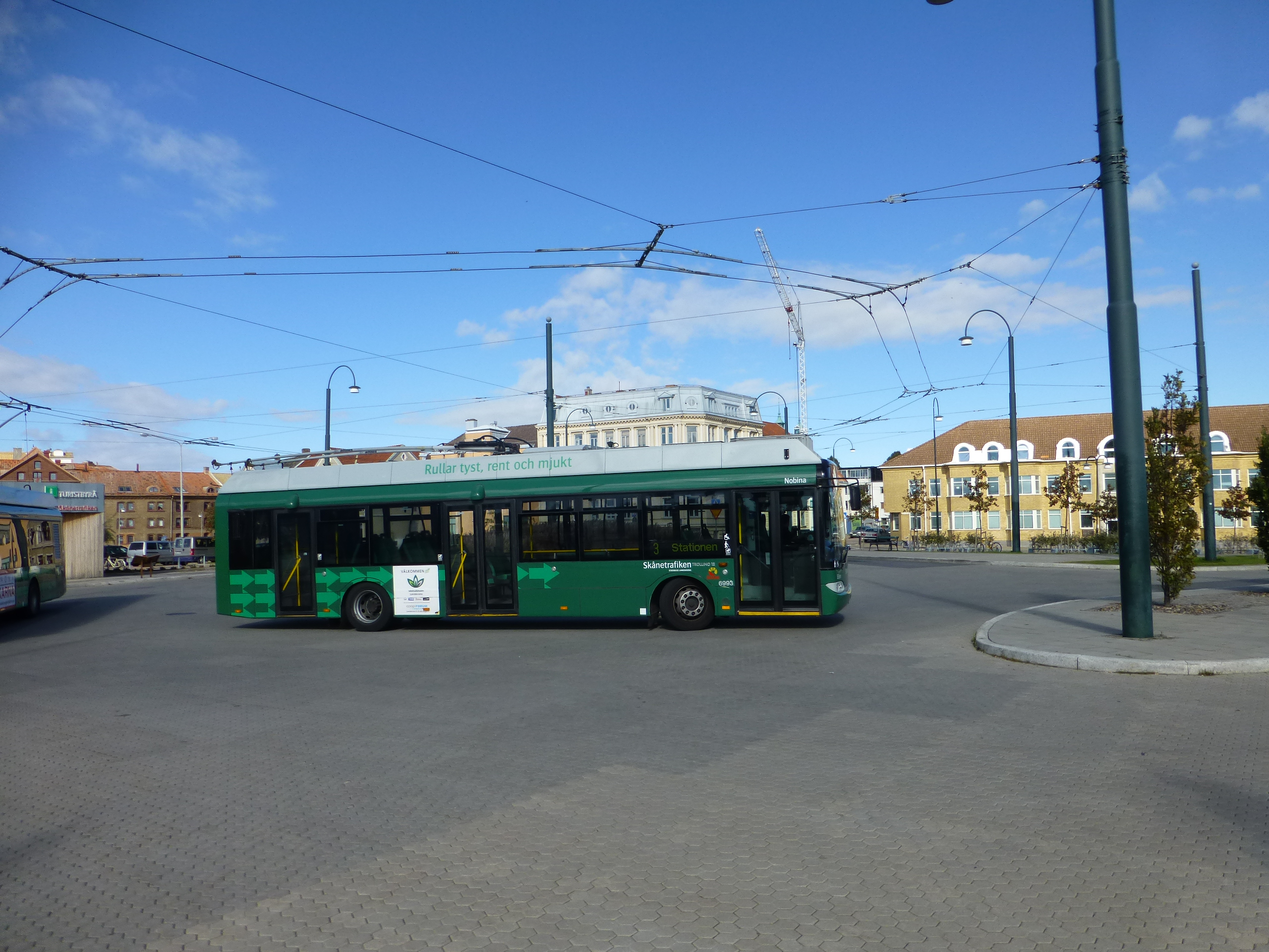 Trolleybus 6993 "Ellen" at Skeppsbron in Landskrona. On short distances the trolleybuses in Landskrona can run on batteries.